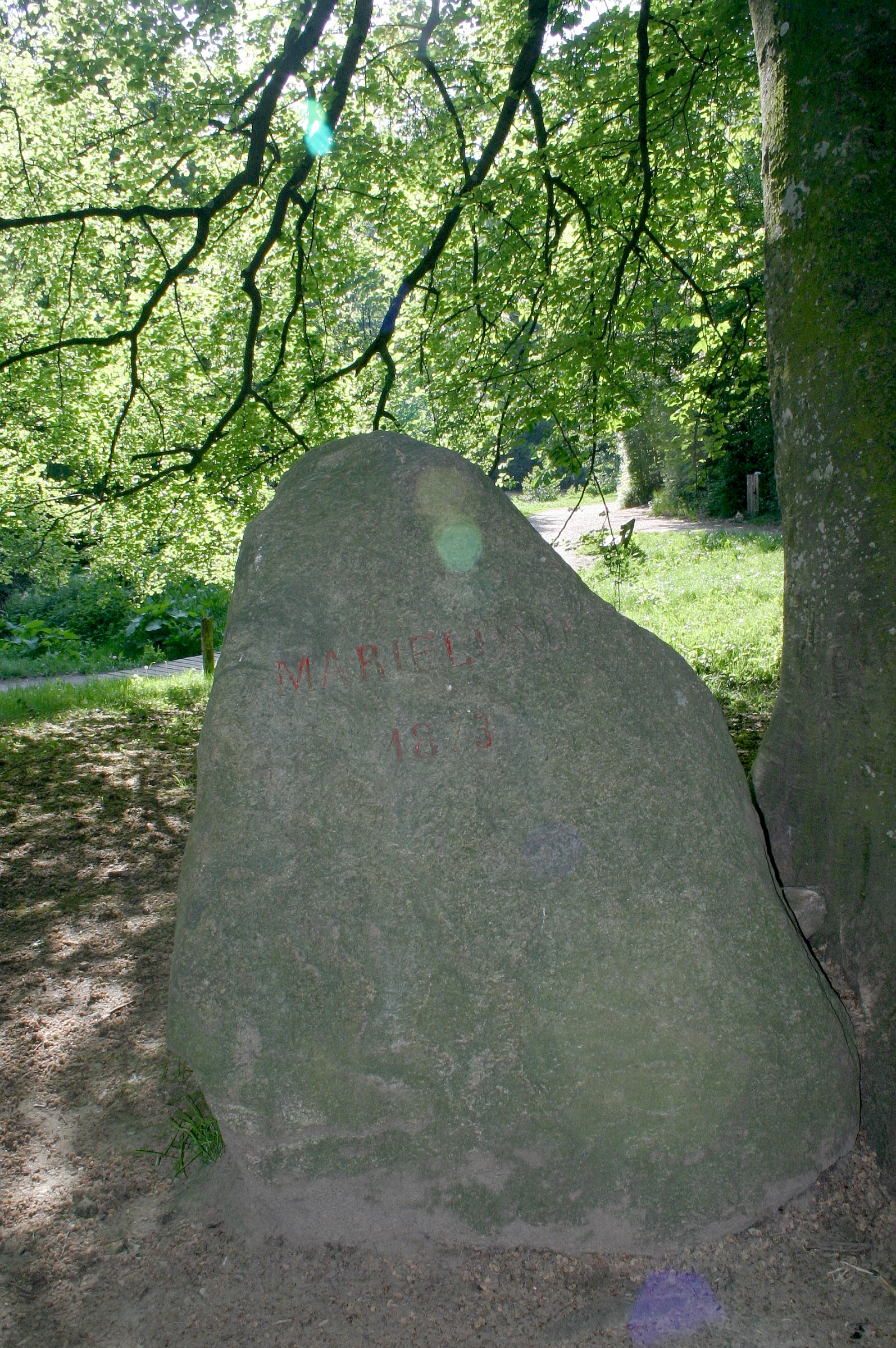 A memorialstone for Marie, a wife to a former owner of the forest.He gave the forest to Kolding Municipalty.Denmark.Placed in the forest of Marielund. En mindesten for Marie, en kone til en tidligere ejer af skoven.Han gav skoven til Kolding Kommune,Danmark.Den er placeret ved Marielundssøen i Marielundsskoven.